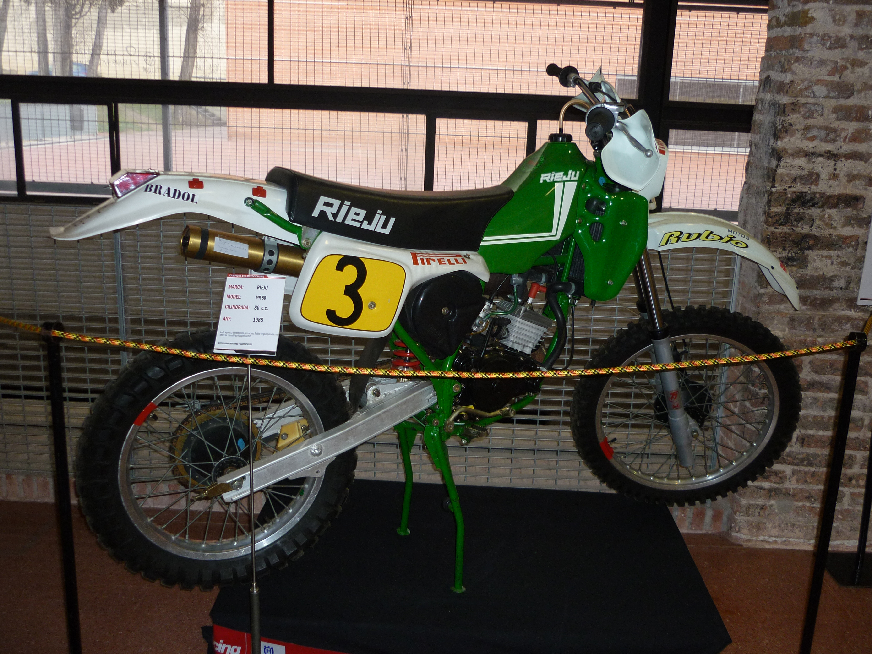 Rieju MR 80 (1985). Rieju works team motorcycle ridden by Francesc Rubio during season 1985. On this bike, Rubio won the Spanish Championship and the second place (80cc and Trophee) at ISDE'85.